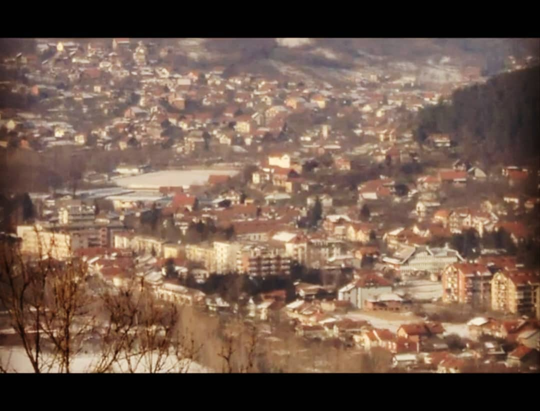 This is a picture of Grdelica (town) made in December 01.2019.